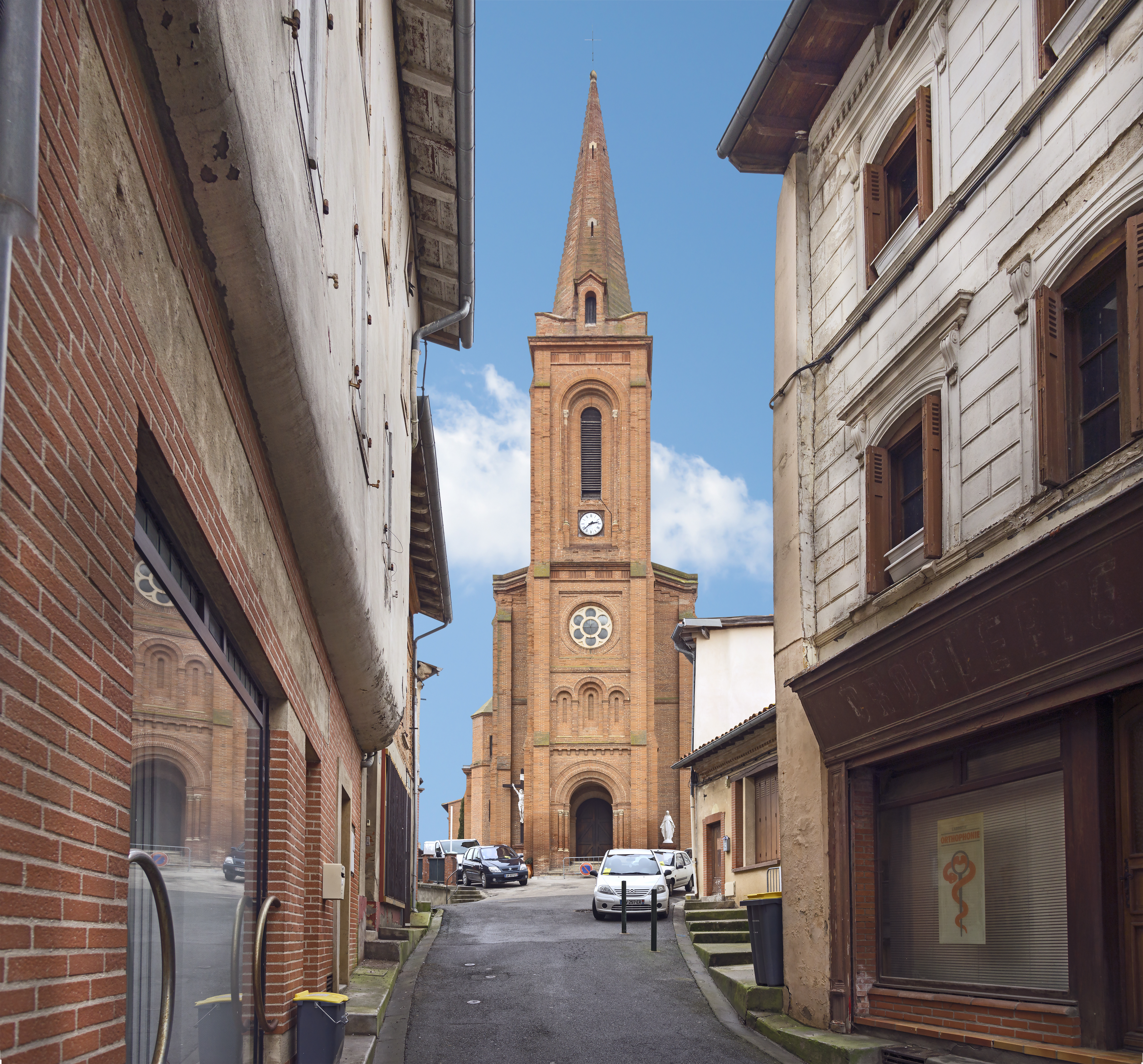 Facade of St.Peter Church view from Emile Zola Streee in Caraman Haute-Garonne France